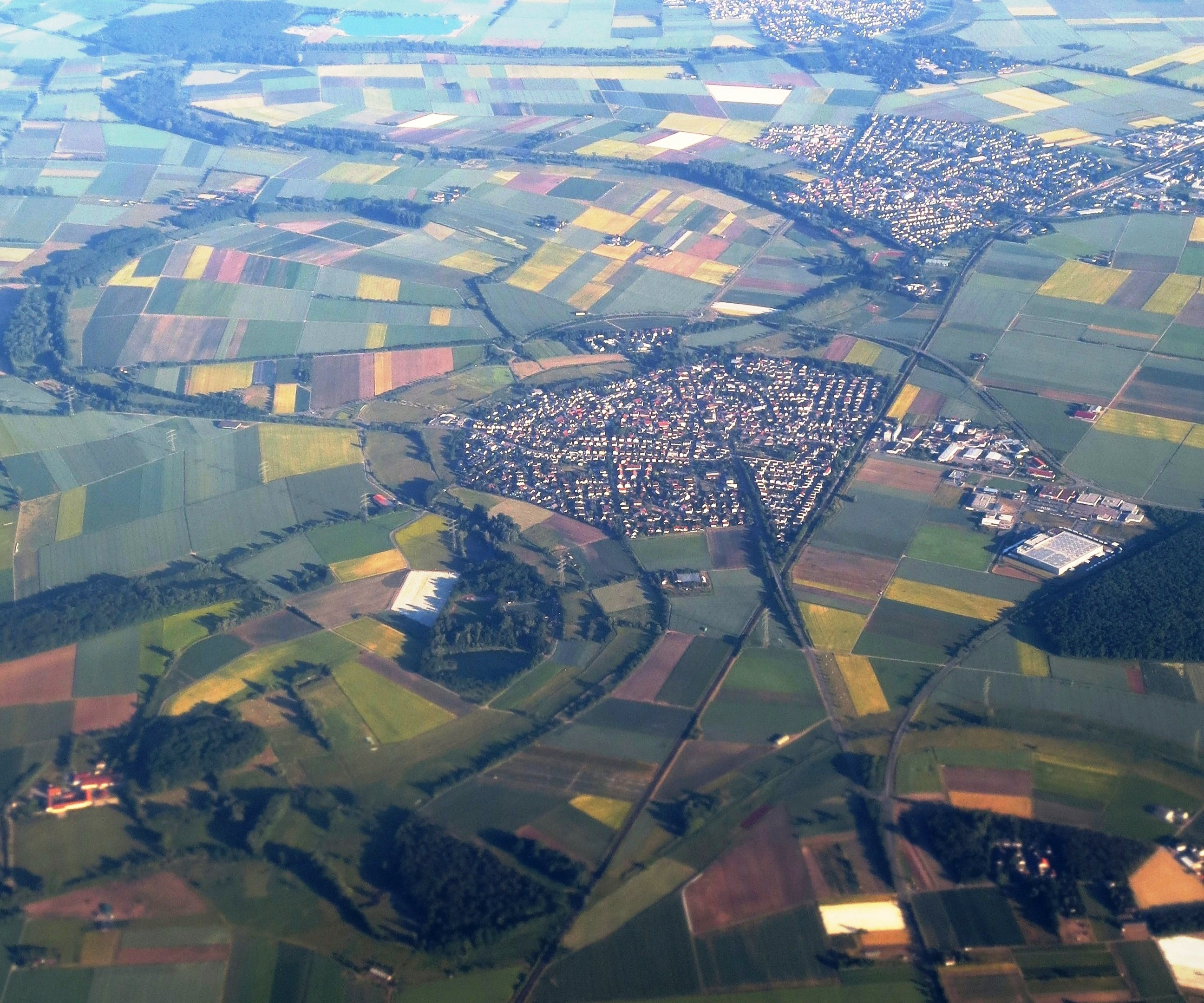 Image of Wolfskehlen, in the center of the image, seen from the north towards South. In the lower front edge of the image is a part of Dornheim.